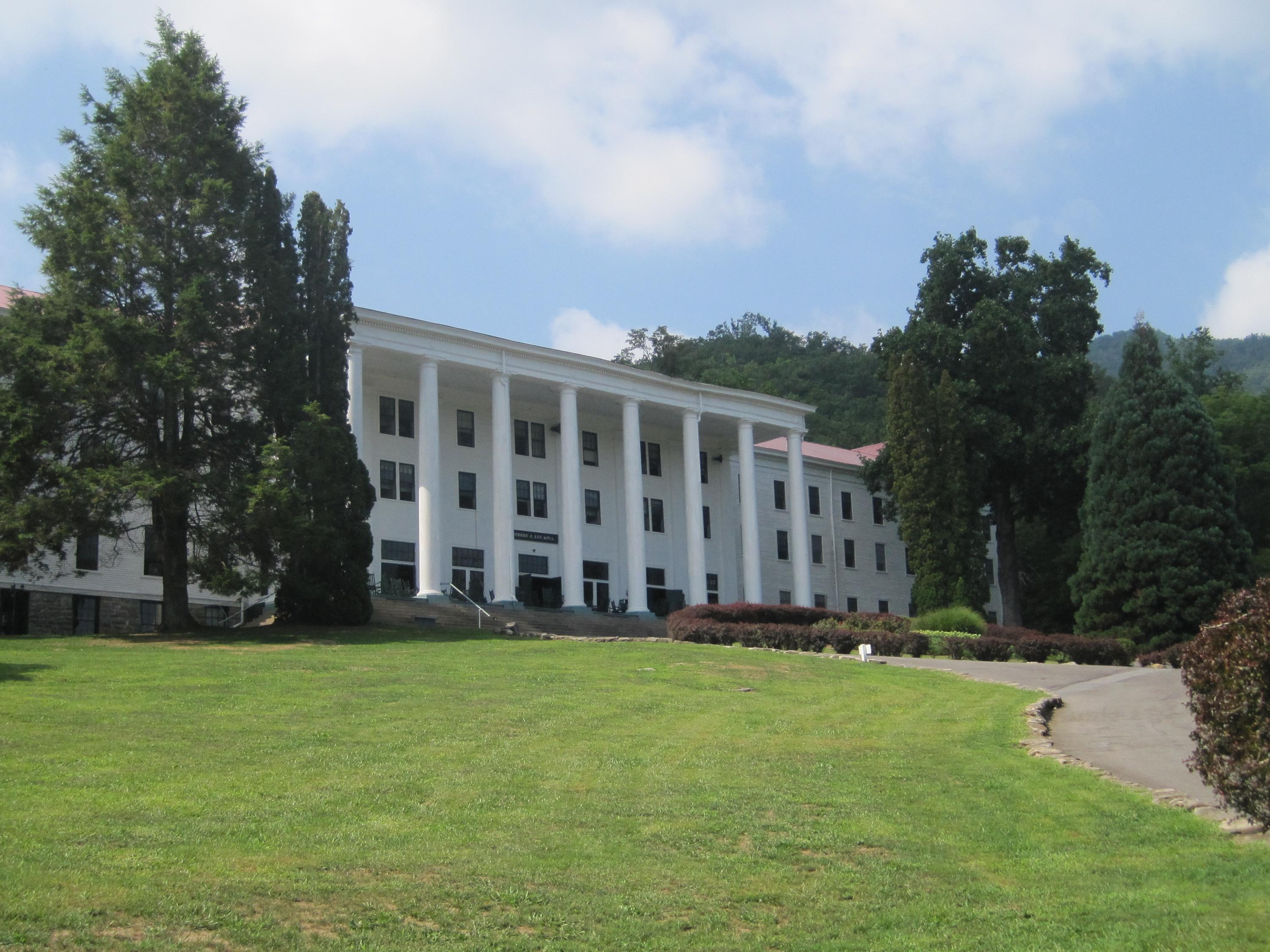 Robert E. Lee Hall, the main building of the YMCA Blue Ridge Assembly in Black Mountain, North Carolina. It was the location of Black Mountain College for its first eight years, 1933-1941.